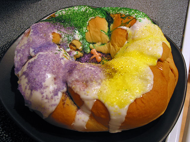 King cake purchased from Rouses in Houma, LA